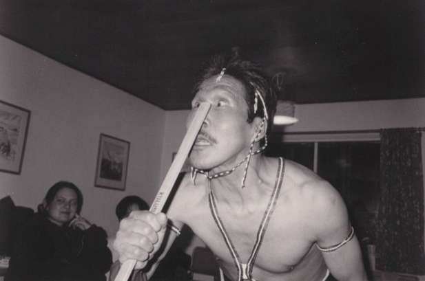 Anda Kuitse drum dancer, son of Vilhelm Kuitse drum dancer, and last angakok (shaman) of Kulusuk. The photo ist taken in Kap Dan on the island of Kulusuk, Greenland.